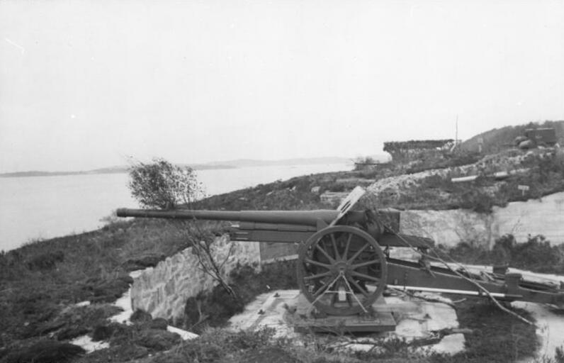 Information added by Wikimedia users.German coastal fortress HKB 6/978 Tau in Norwegian part of the Atlantik Wall [1]